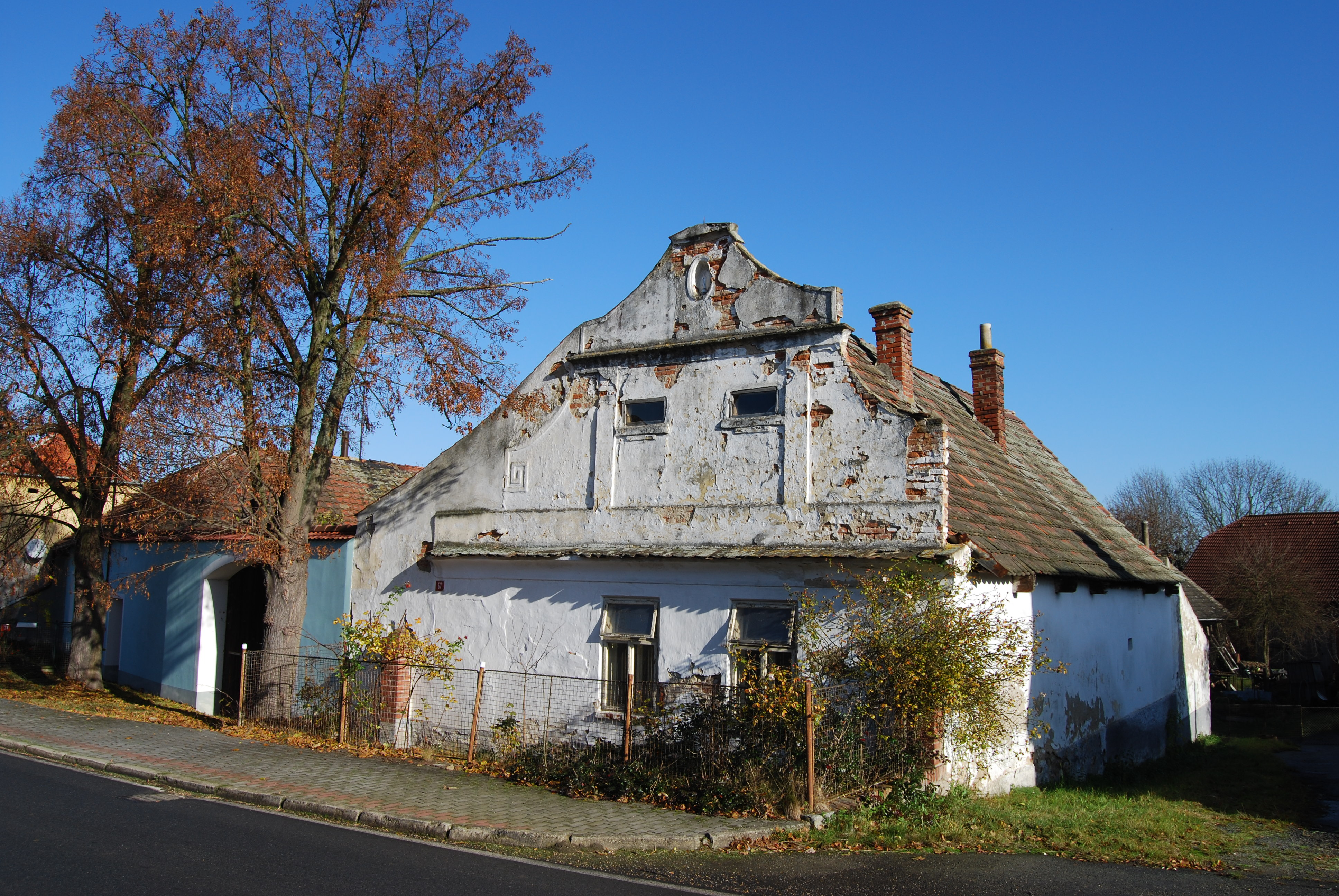 Chrášťany village in České Budějovice District, Czech Republic.